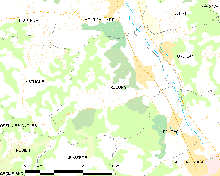 Map of French municipality